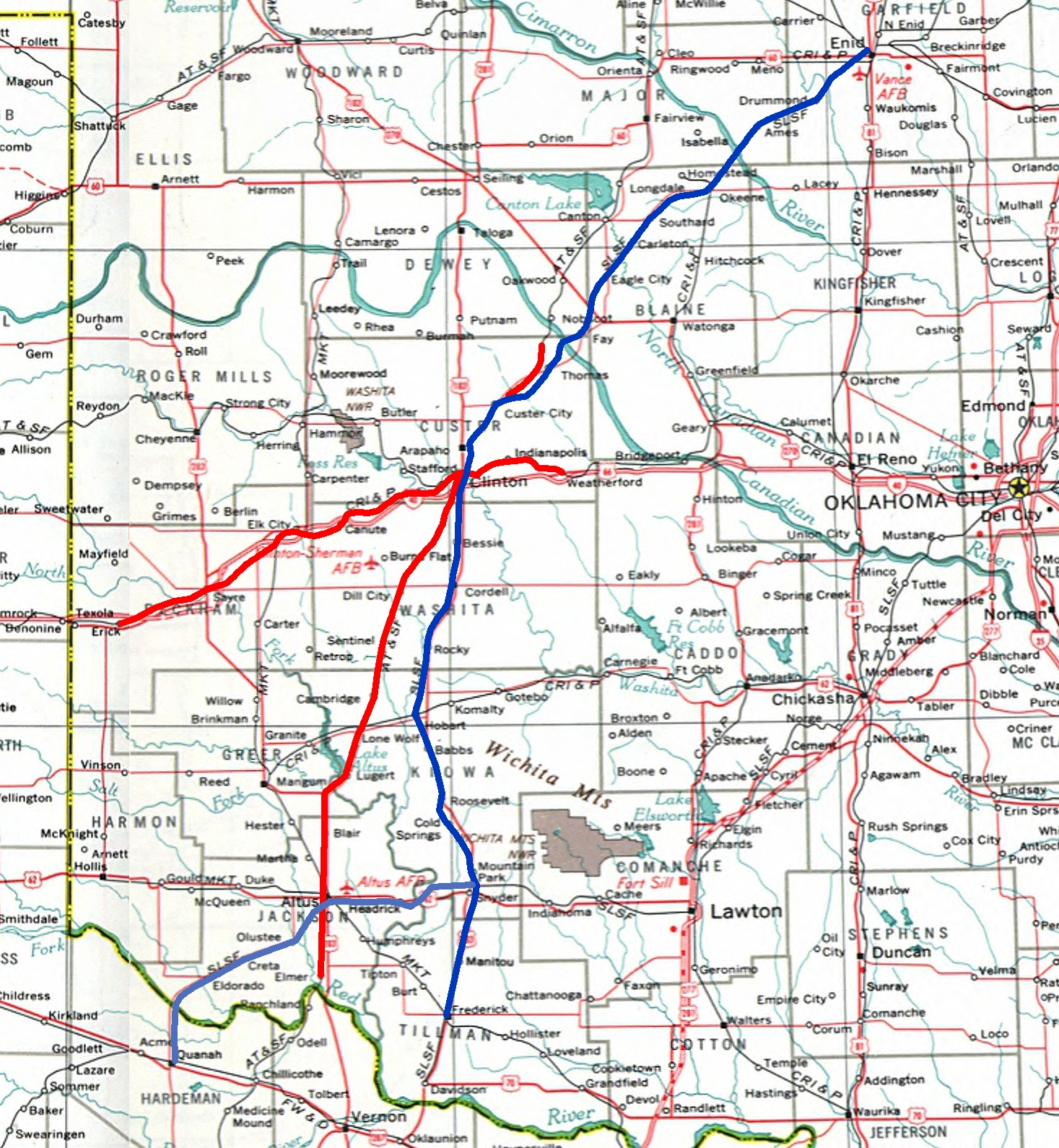 Map of the Farmrail Corp. (red), Grainbelt Corp. (blue) and Grainbelt Trackage rights (light blue)